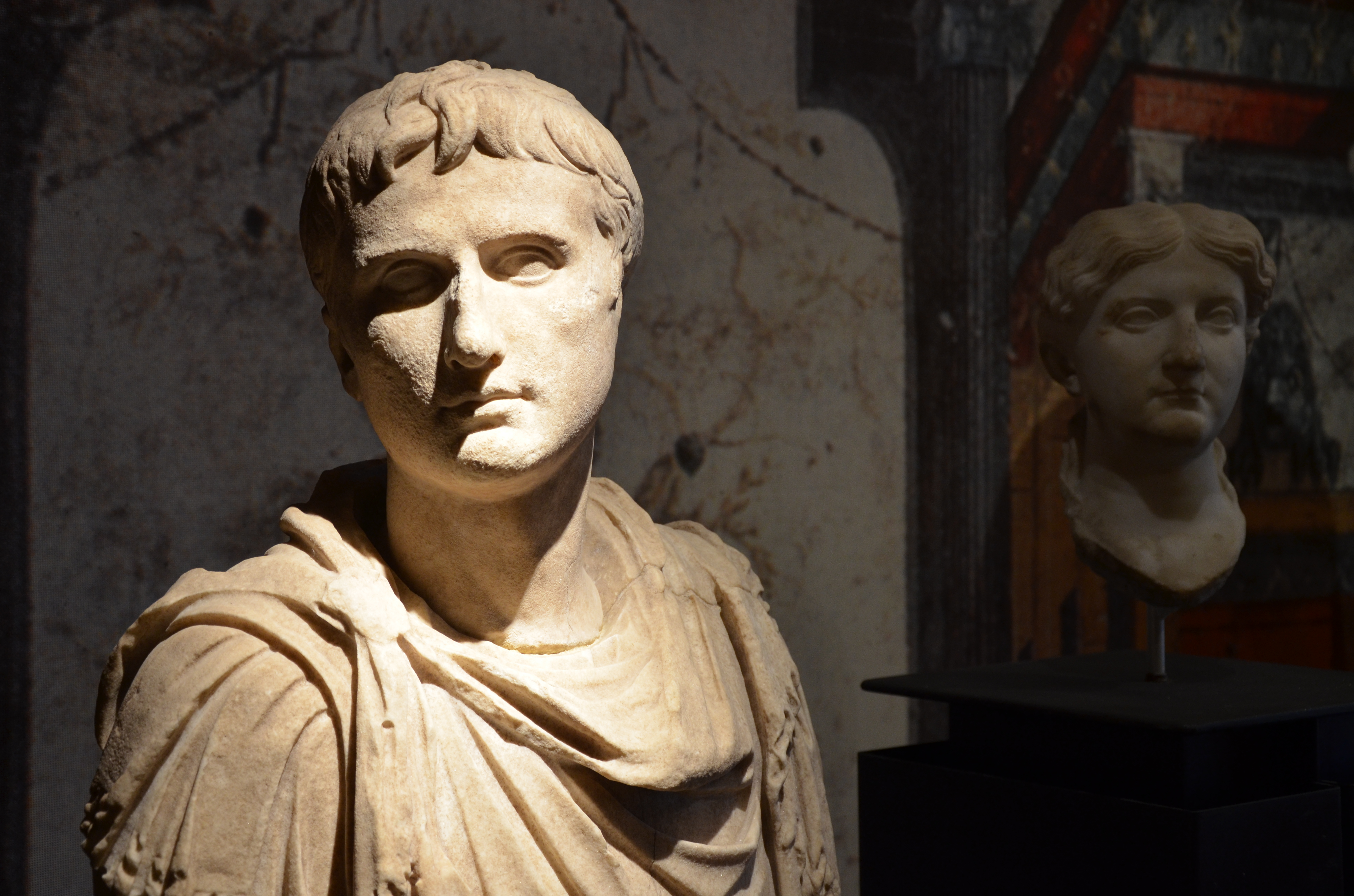 Augustus and Livia, Archaeological Museum of Formia, Italy